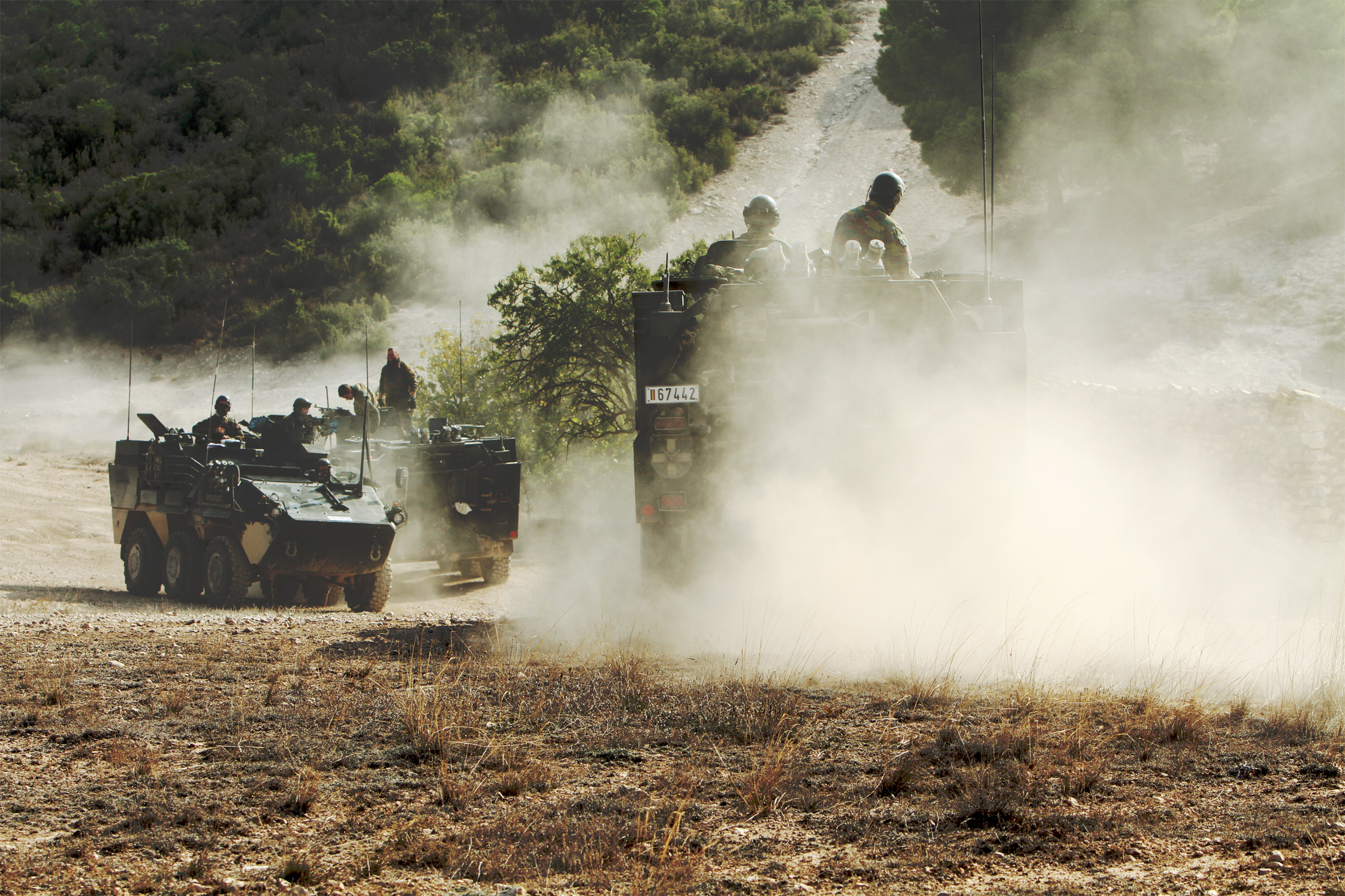 Trident Juncture 2015 - 3 Belgian APC Pandurs 6x6 conducting reconnaissance in support to the Spanish 7th Reconnissance Cavalry Group of the VII Light Infantry Brigade "Galicia". NATO photo by Henk van der Velde